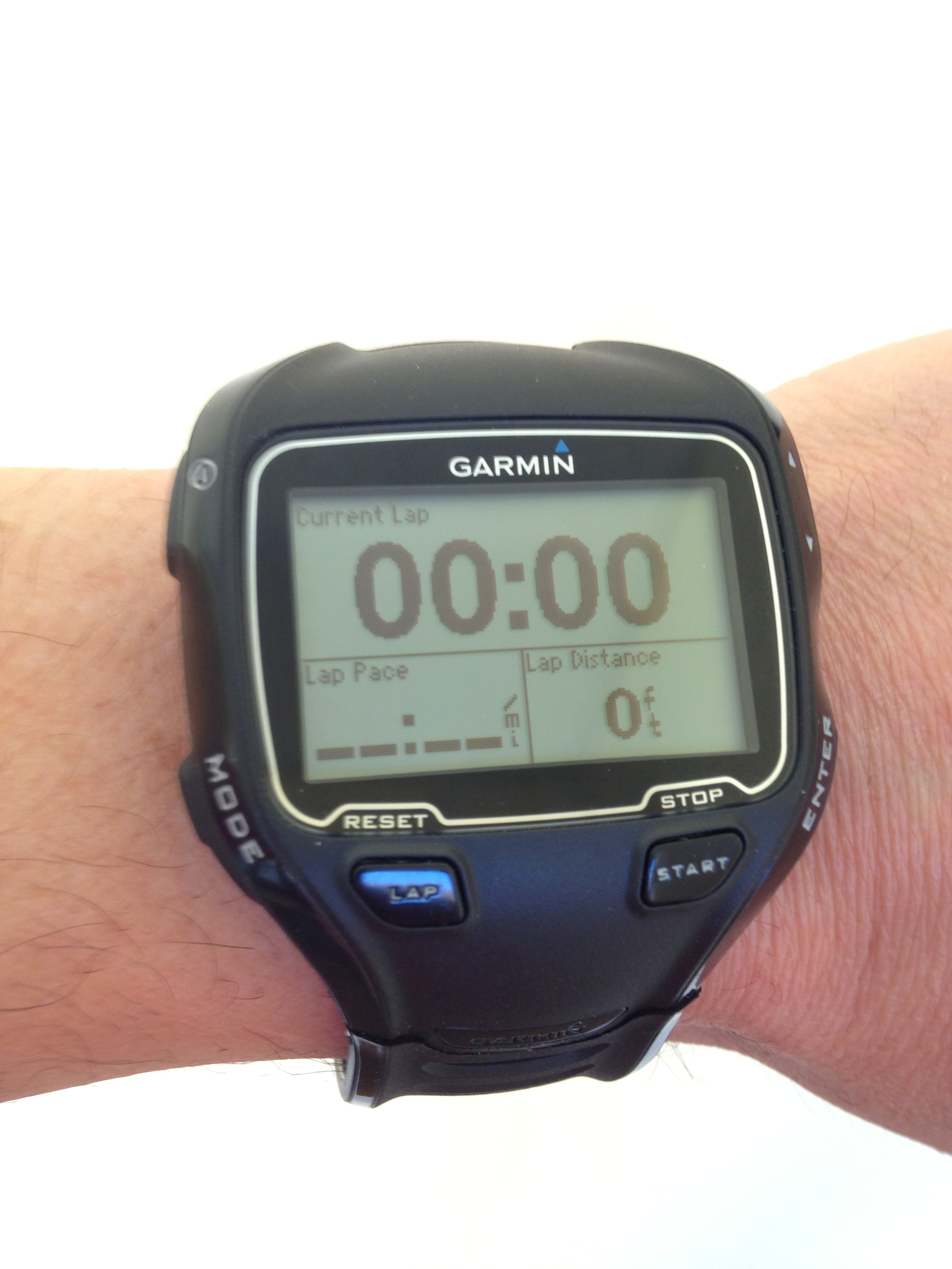 Garmin Forerunner 910XT GPS heart rate monitor sports watch. A very popular GPS sports watch that featured Garmin SwimMetrics to give stroke / swim style efficiency as well as regular GPS speed/distance/pace monitoring. Used by triathletes and other multisport athletes eg. Swim, Bike, Run. Also used by windsurfers and paddle boarders